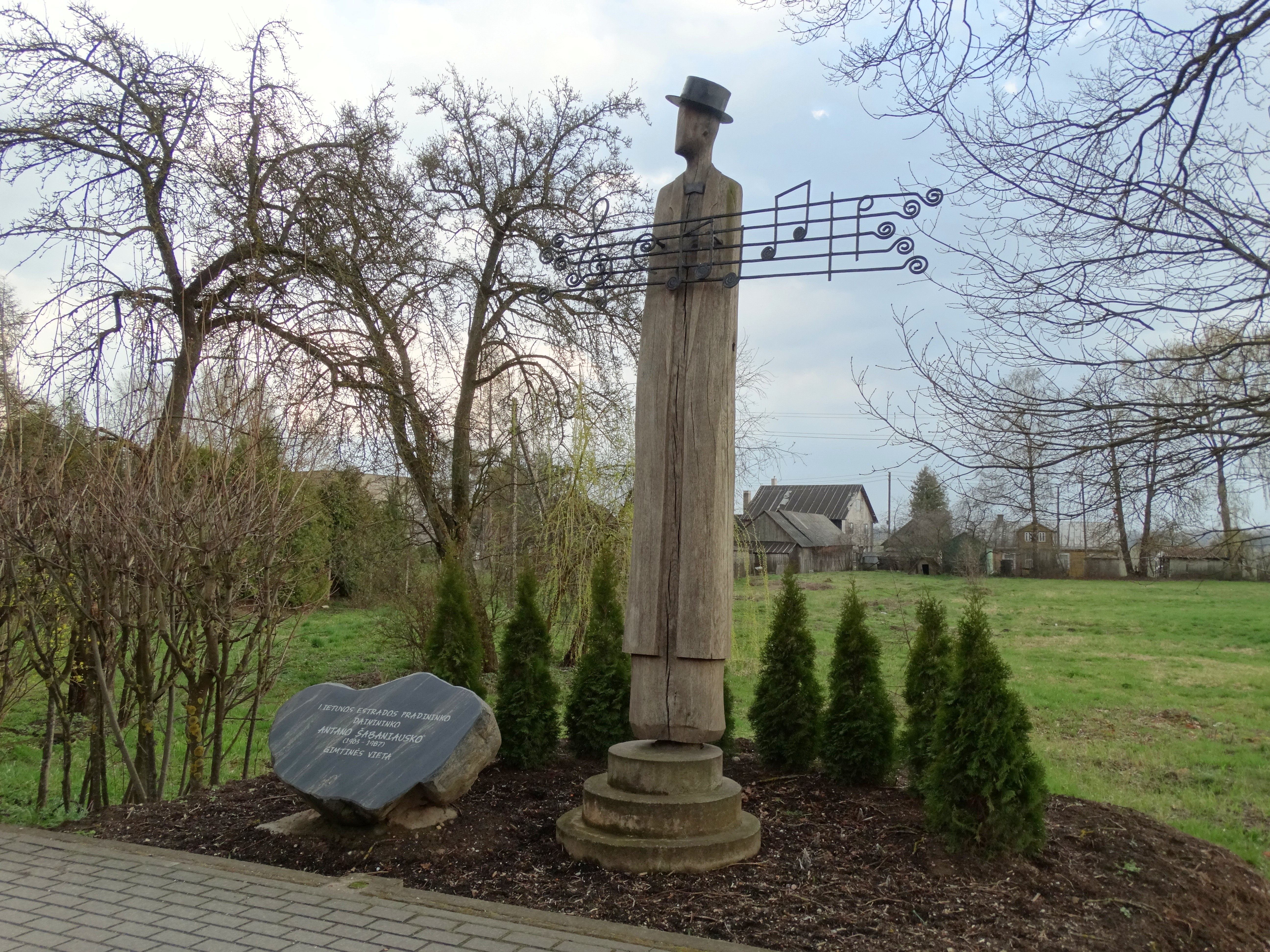 Memorial stone to A. Šabaniauskas, Jurbarkas, Lithuania